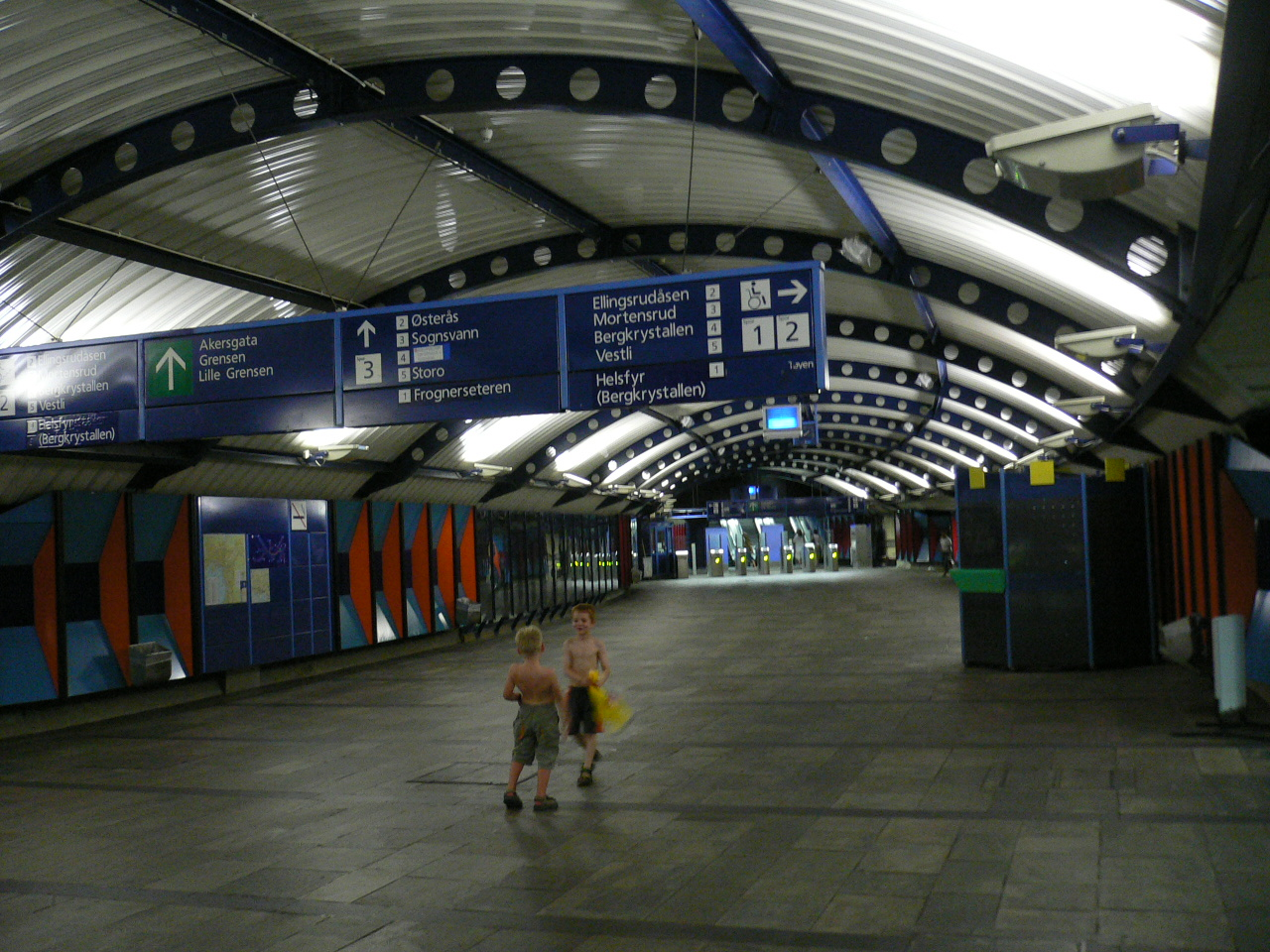 Stortinget station on the Oslo T-bane, Norway